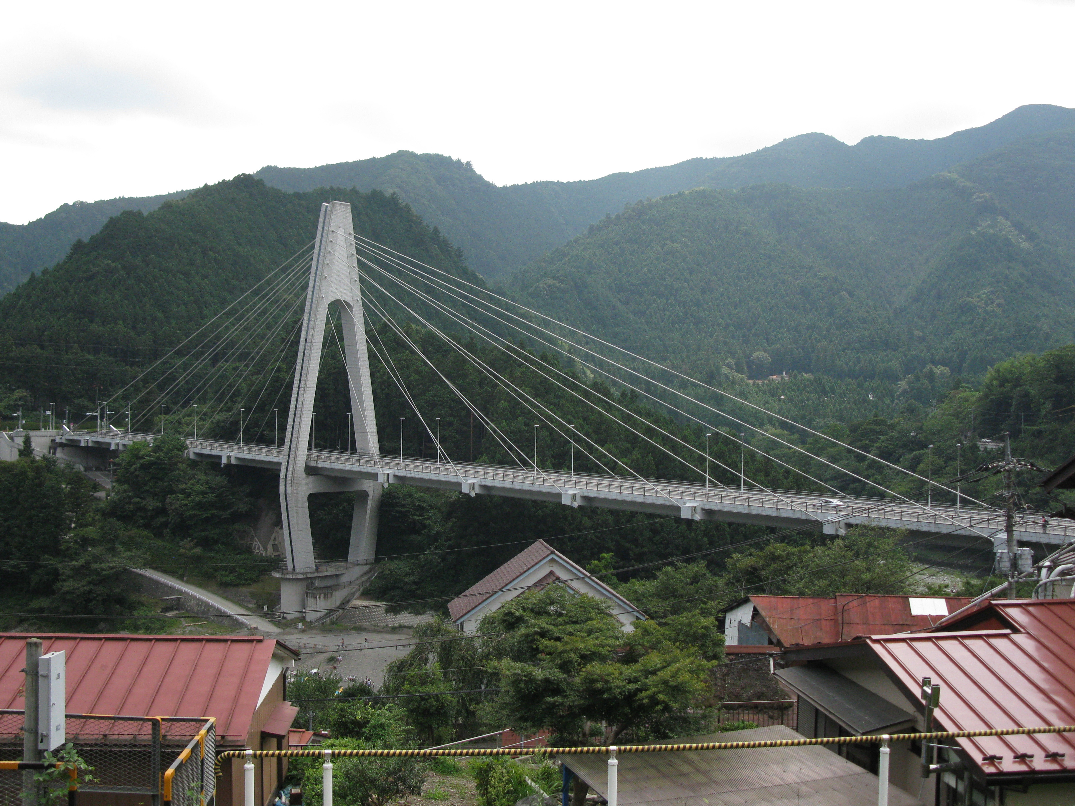 Okutama bridge (Okutama, Tokyo, Japan)